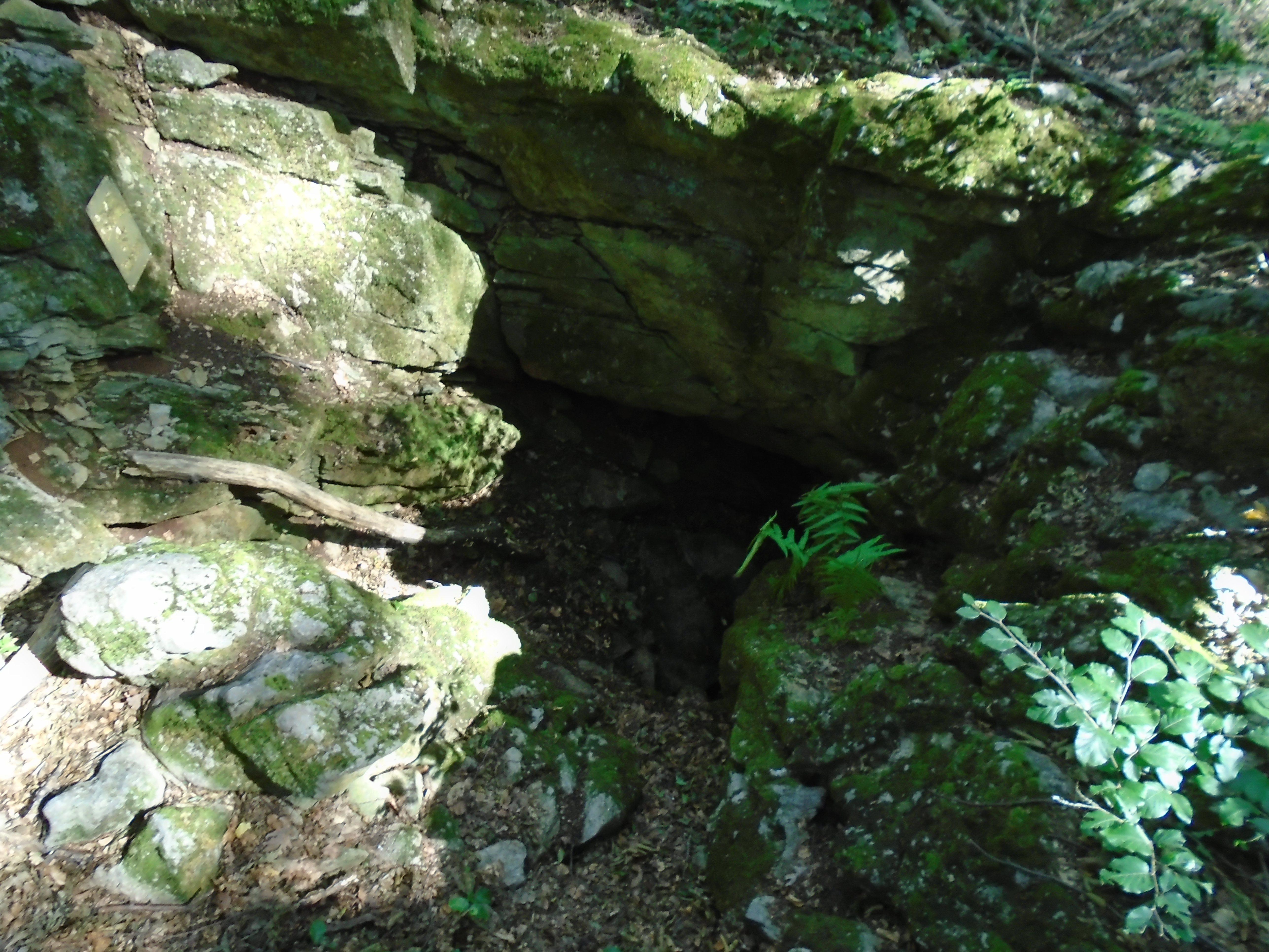 Entrance of Frank Cave.